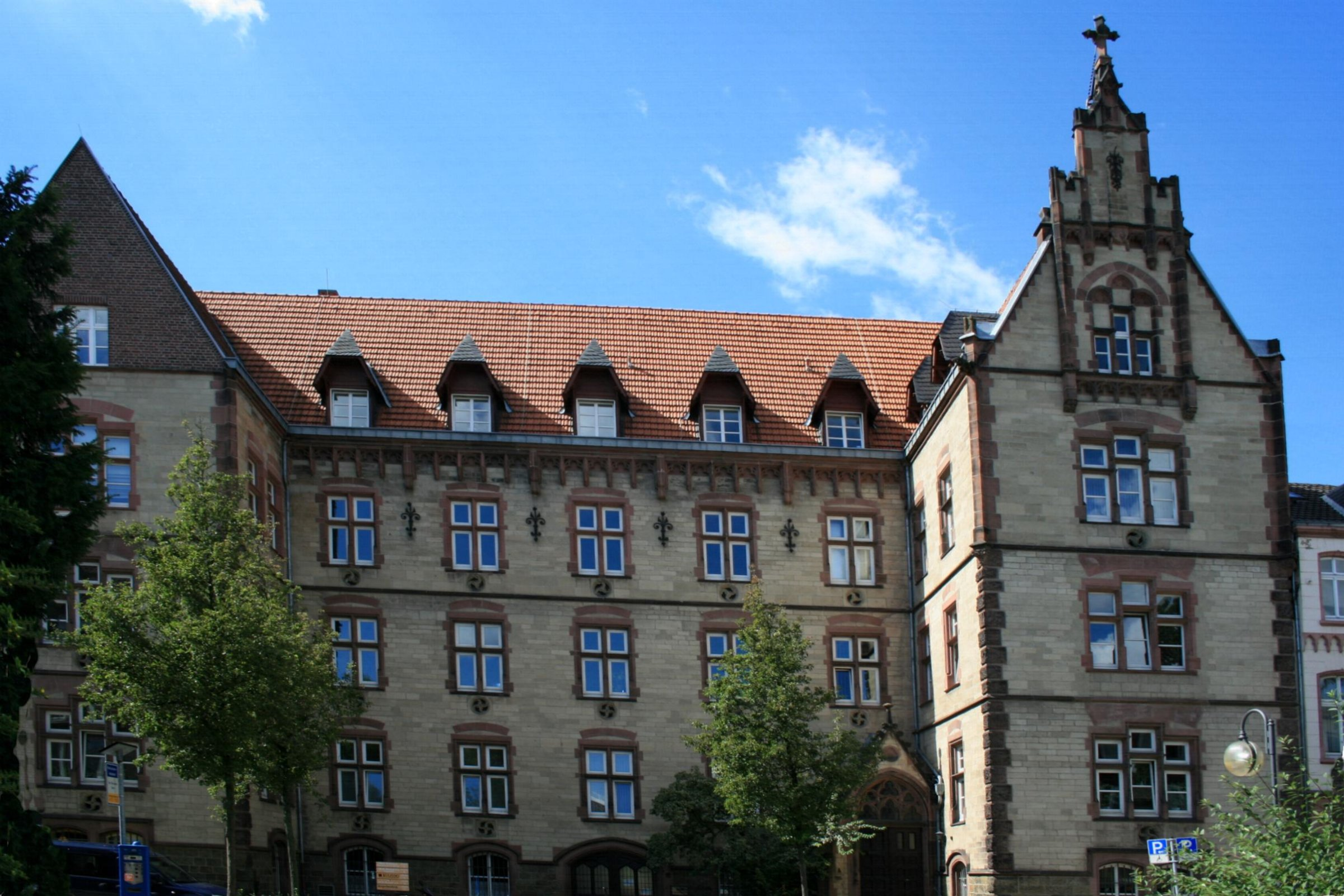 Cultural heritage monument No. W 026 in Mönchengladbach